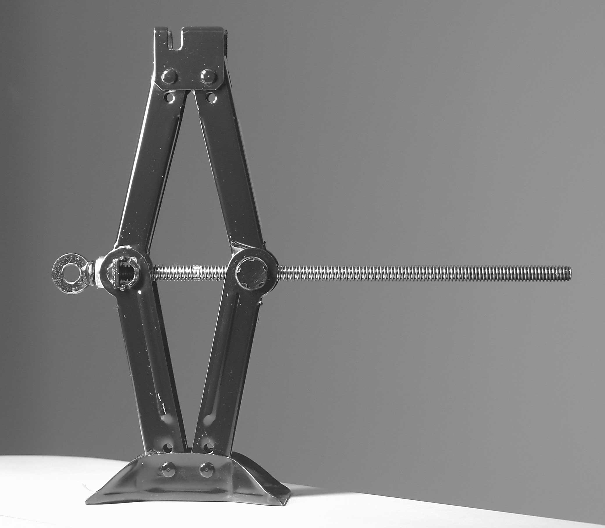 a jackscrew-style car jack. There is also an animated version.